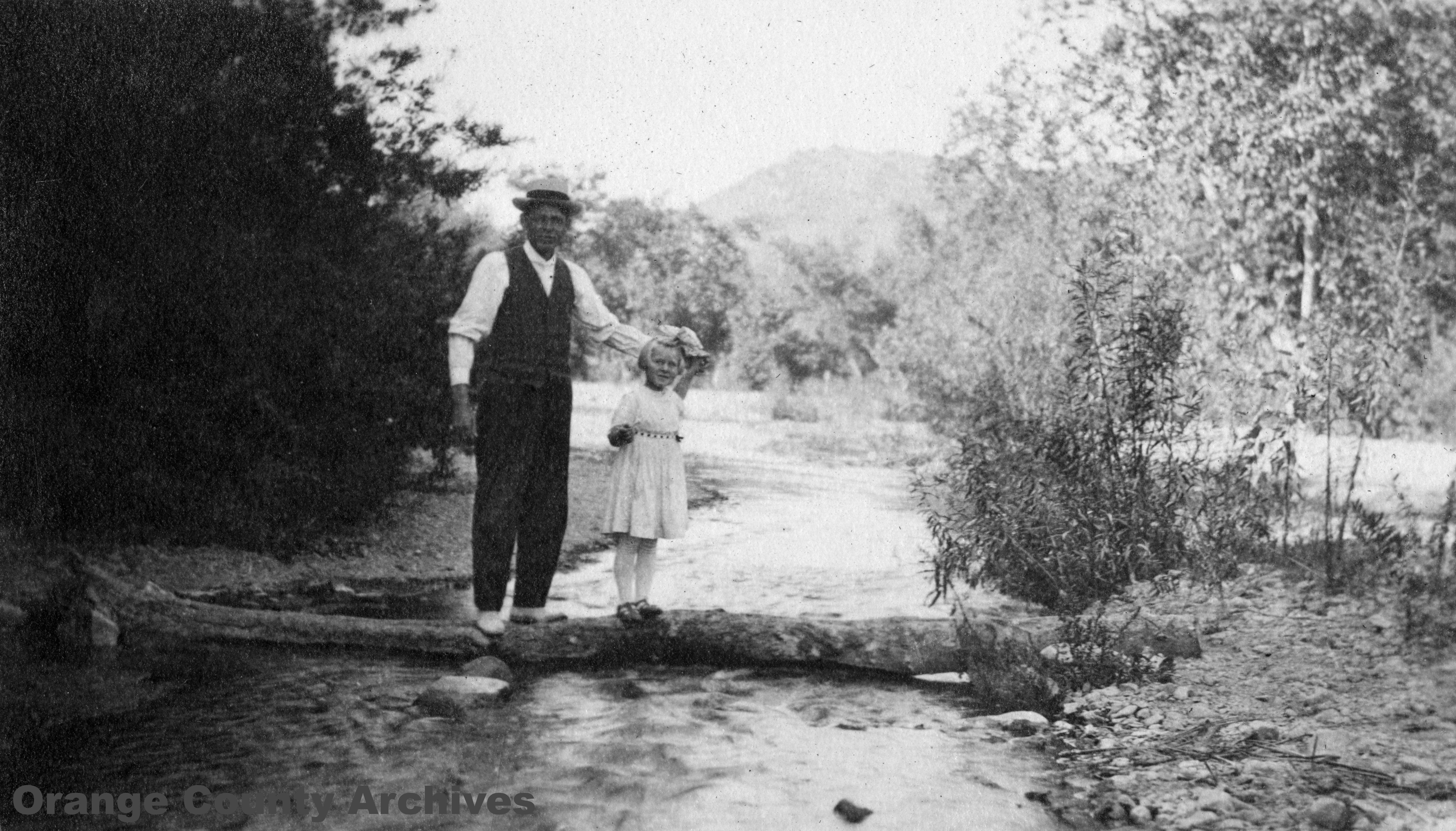 There are no known copyright restrictions on this image. All future uses of this photo should include the courtesy line, "Photo courtesy Orange County Archives." Comments are welcome after reading our Comment Policy. Photo from the Bolles Collection, Ac#2015.7.16